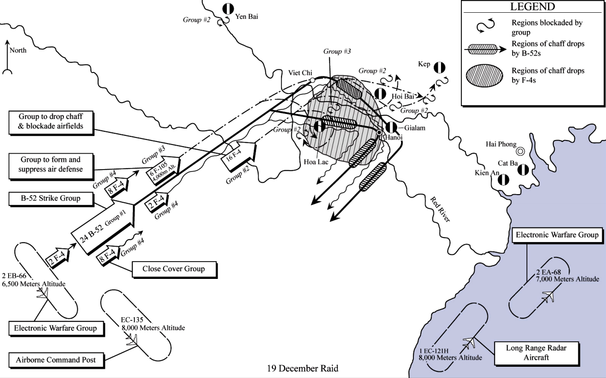 Linebacker II – 19 December Raid.